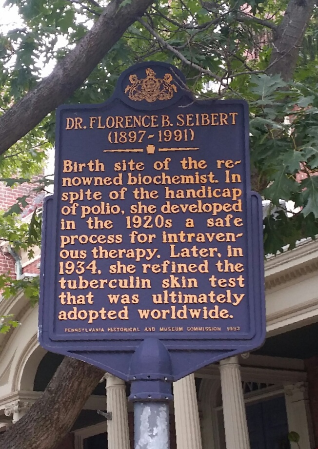 Photo of Dr. Florence Seibert historical marker take at 72 N. 2nd Street, Easton, PA.